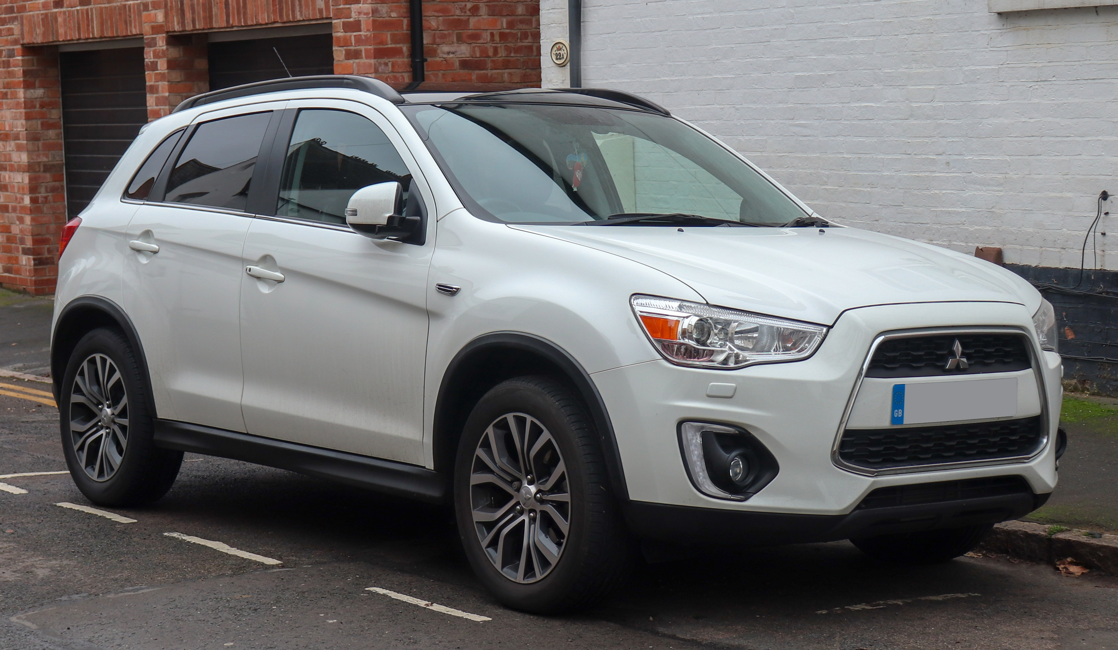 2016 Mitsubishi ASX ZC-H DI-D 4X4 1.6 Taken in Leamington Spa